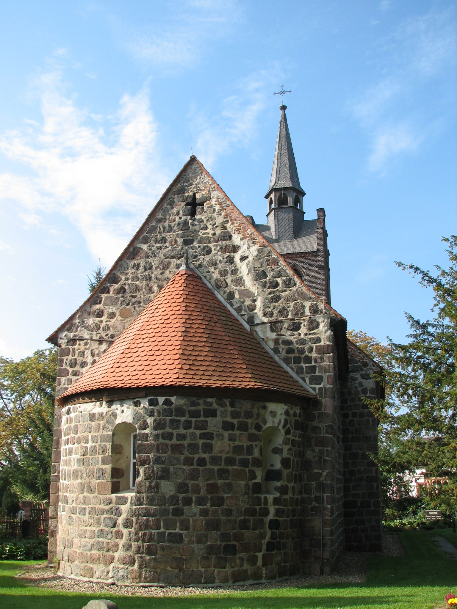 The village church of Münchehofe, protected as a cultural heritage monument, as seen from the East.